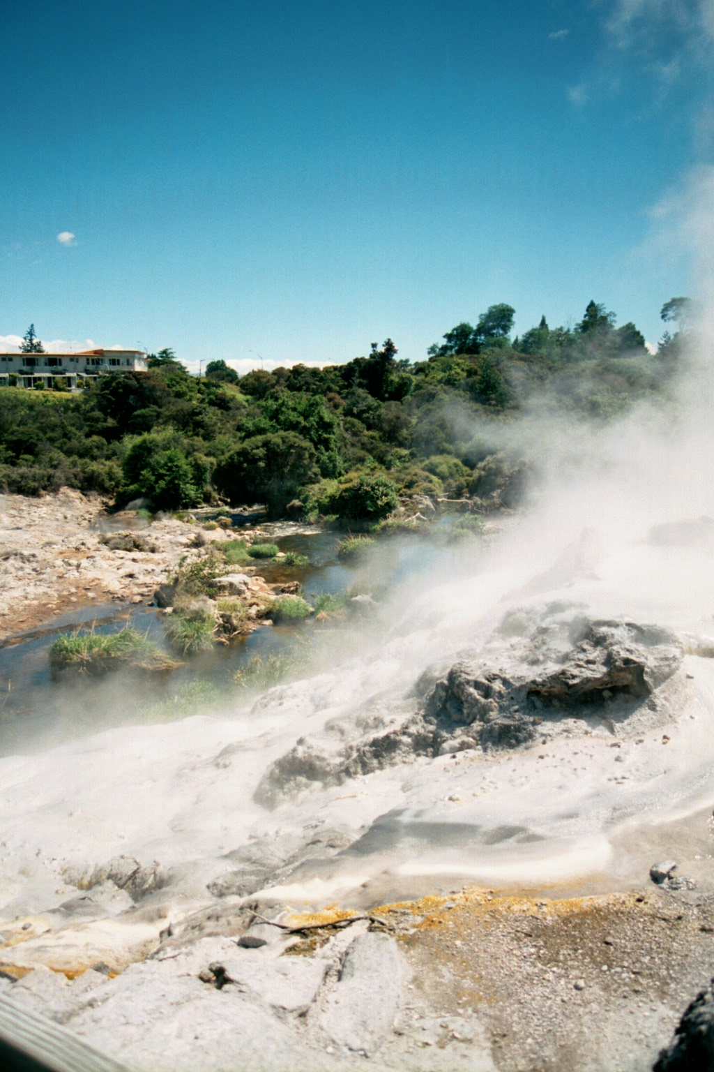 Looking over part of Geyser Flat with Puarenga Stream behind, Whakarewarewa, Rotorua, New Zealand